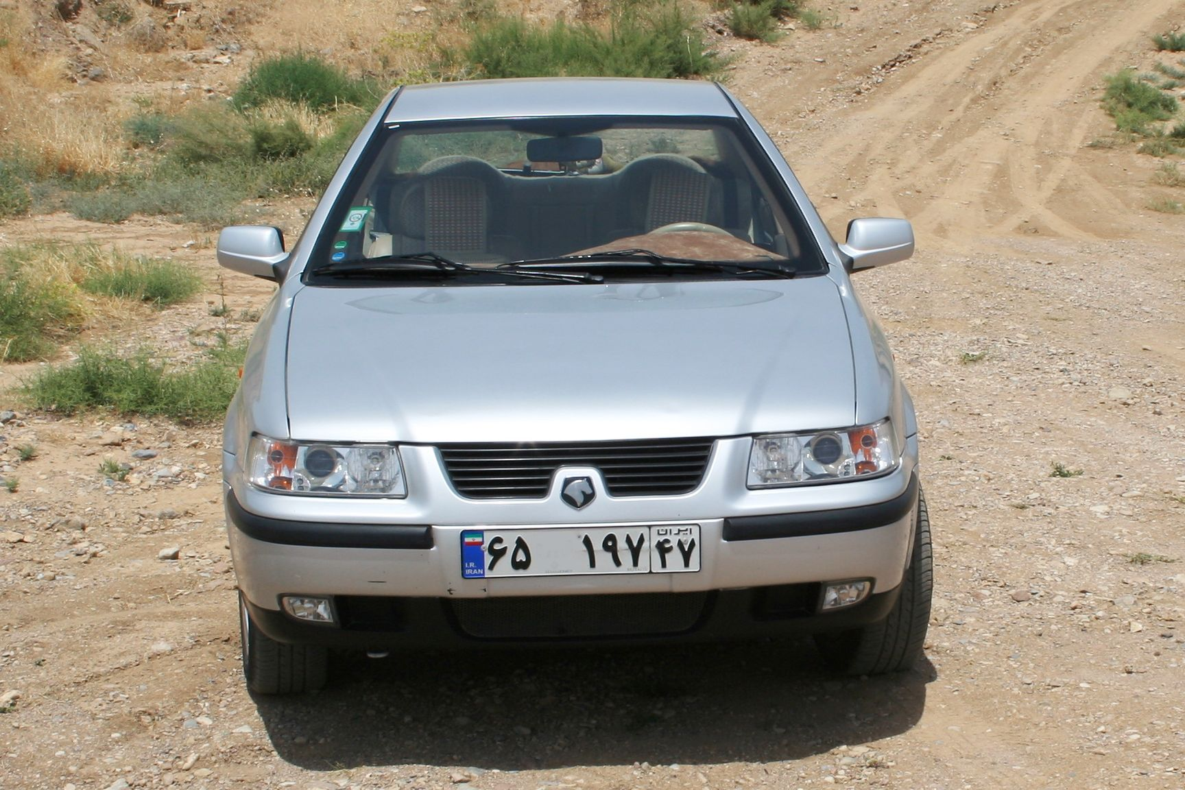 IKCO Samand X7.